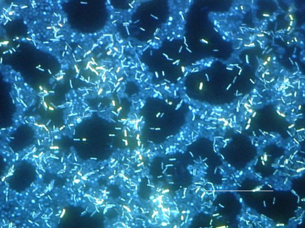 Polymicrobic biofilm grown on a stainless steel surface in a laboratory potable water biofilm reactor for 14 days, then stained with 4,6-diamidino-2-phenylindole (DAPI) and examined by epifluorescence microscopy. Bar, 20 µm.